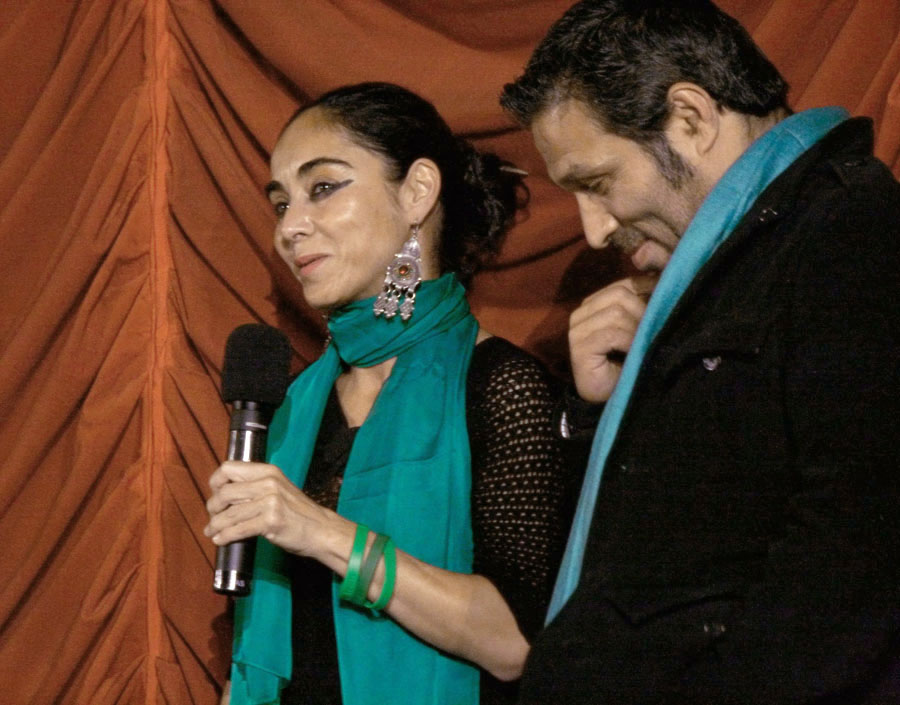 Shirin Neshat and Shoja Azari at the screening of their movie Zanan bedun-e mardan (Women Without Men) during the Vienna International Film Festival 2009.